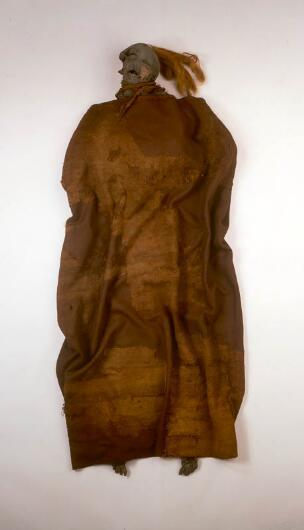 Remains of the bog body Yde Girl. The bog body was discovered turfing a bog Yde, Province Drenthe, Netherlands on 12 Mai 1897.